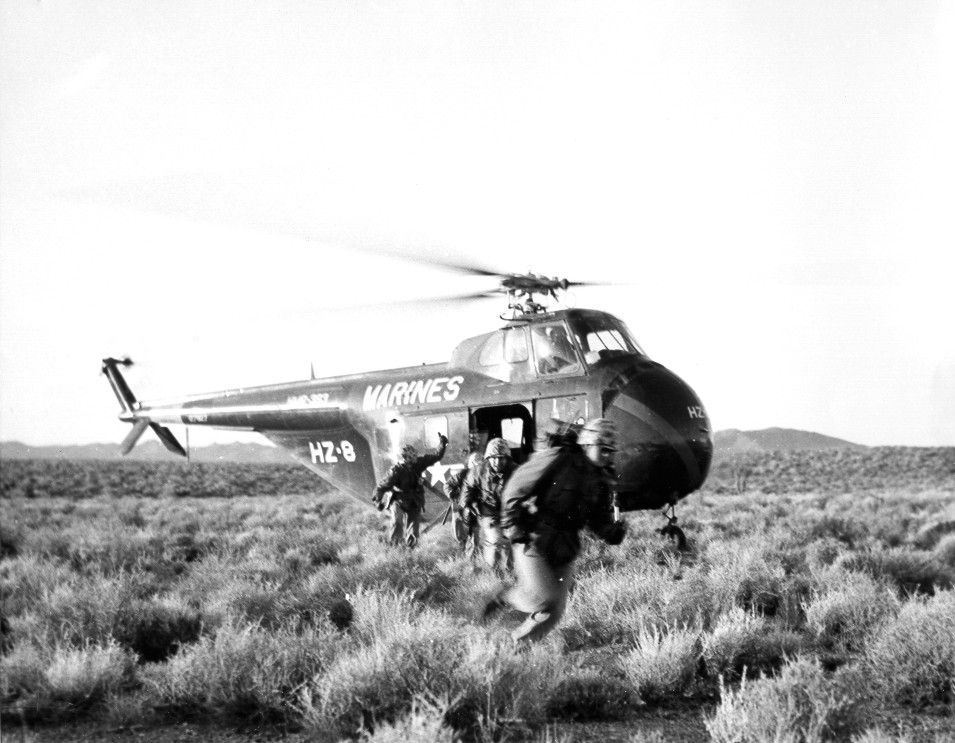 TEAPOT - The Marine heliteam leader (last man out of copter) gives the thumbs-up to the pilot which signals that the last of the assault Marines has cleared the copter and the whirlybird can take off for another load of Marines. This scene was repeated numerous times on the Nevada Test Site this week when 2000 Marines participated in an extensive atomic maneuver.